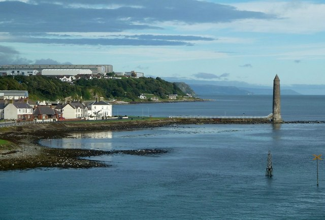 Chaine Monument View